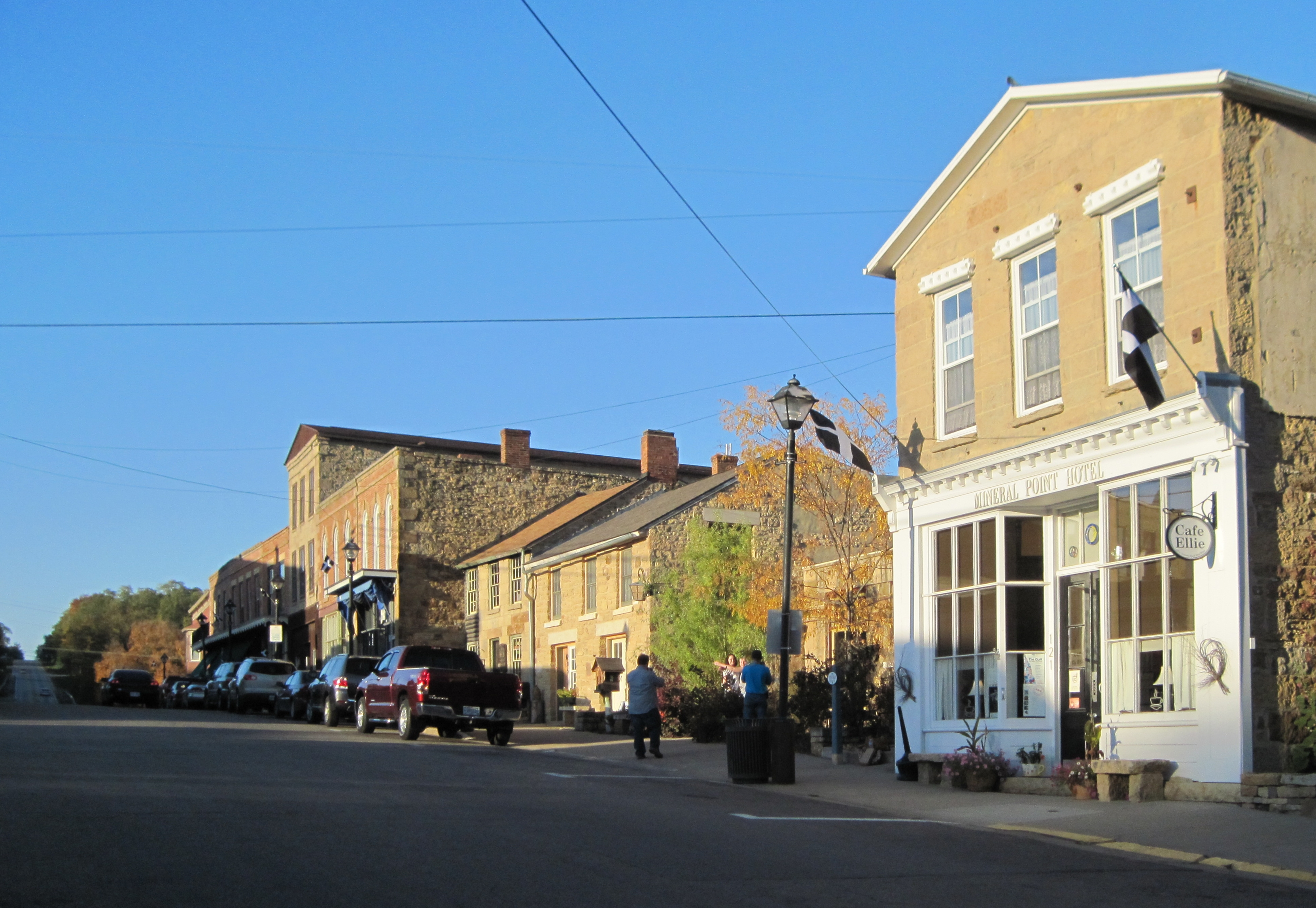 A view of Commerce Street in Mineral Point Historic District. St Perran's flags fly from the hotel and café in the foreground.